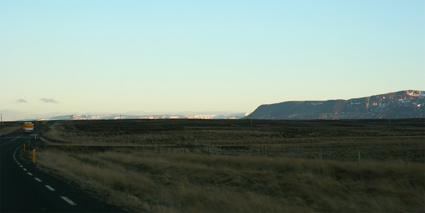 Northeast toward Vatnsdalsfjall and the distant peaks of Langadalsfjall, November 21 12:25 Iceland, November 2007 Photo by me user debivort (or friend, with permission given to upload and license freely).